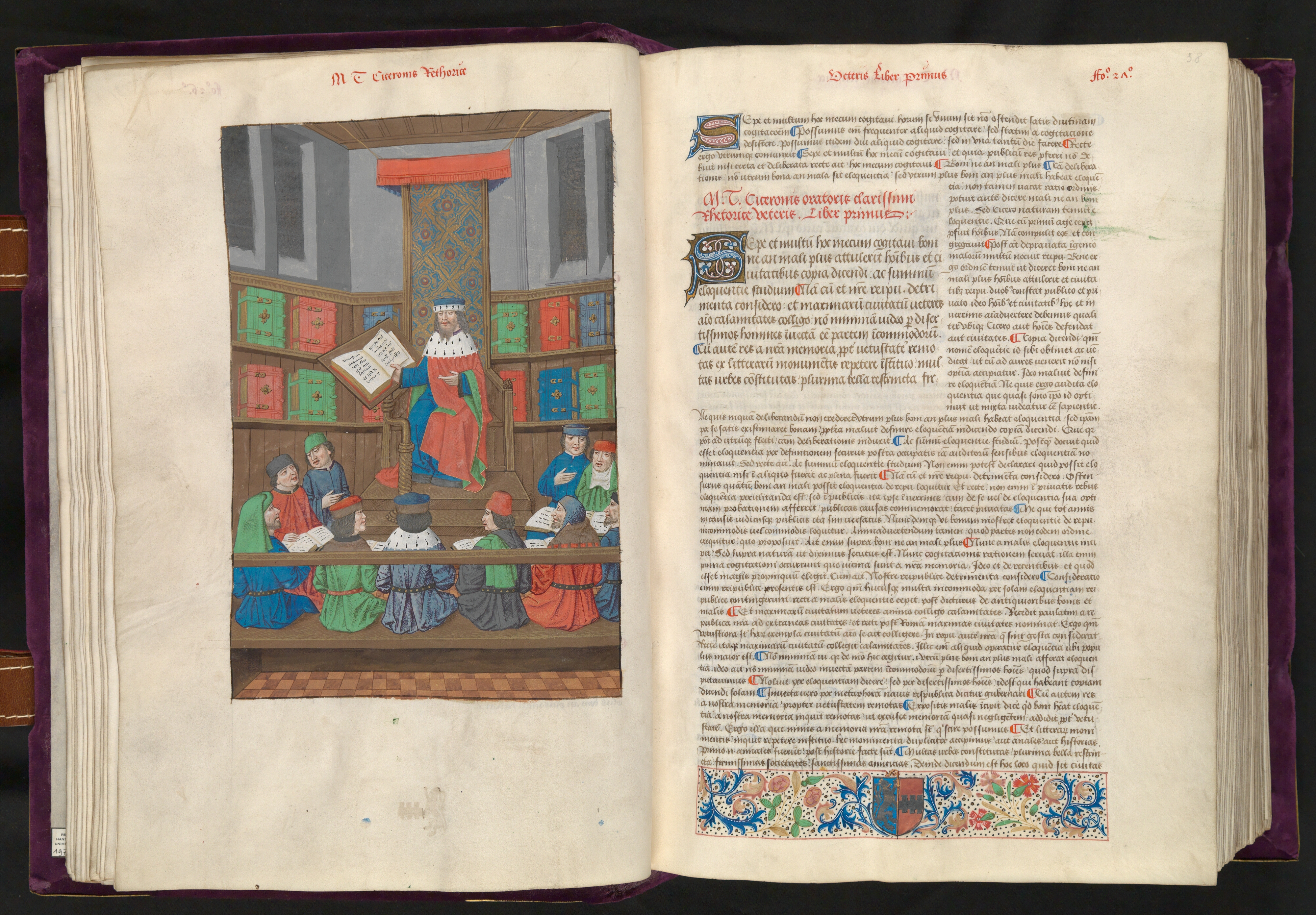 Several manuscripts from the Mercatellis library can be consulted in digital format via Ghent University Library (